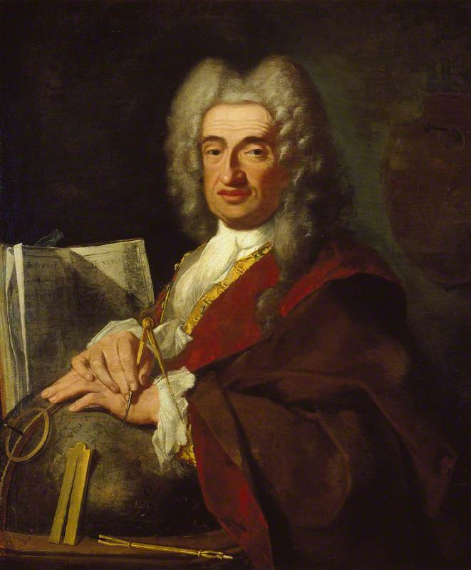 portrayed with the tools of the mathematician and cartographer; a palette indicates his profession.